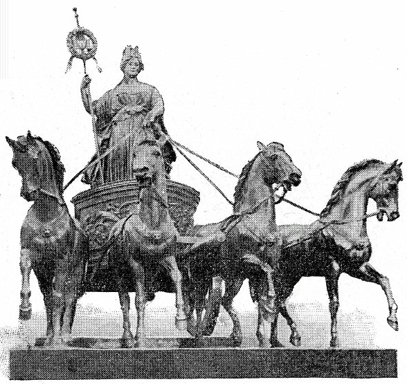 Braunschweig, Germany: Brunonia with Quadriga on Brunswick Palace